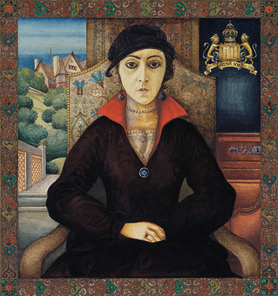 With its enigmatic air and straightforward composition, this 1926 portrait of Szyk’s wife, Julia, is reminiscent of da Vinci’s Mona Lisa, a nod to Szyk’s knowledge of and love for art history. The richly patterned border, and the treatment of furnishings and wall coverings is at odds with Julia’s black austere dress, and serves to make her the focus of the work. She wears a Star of David around her neck indicating her Jewish faith. Only the hint of a patterned chemise underneath her outer garments, and her rich red collar, suggest intimacy and her personality: there was more to her than immediately apparent.